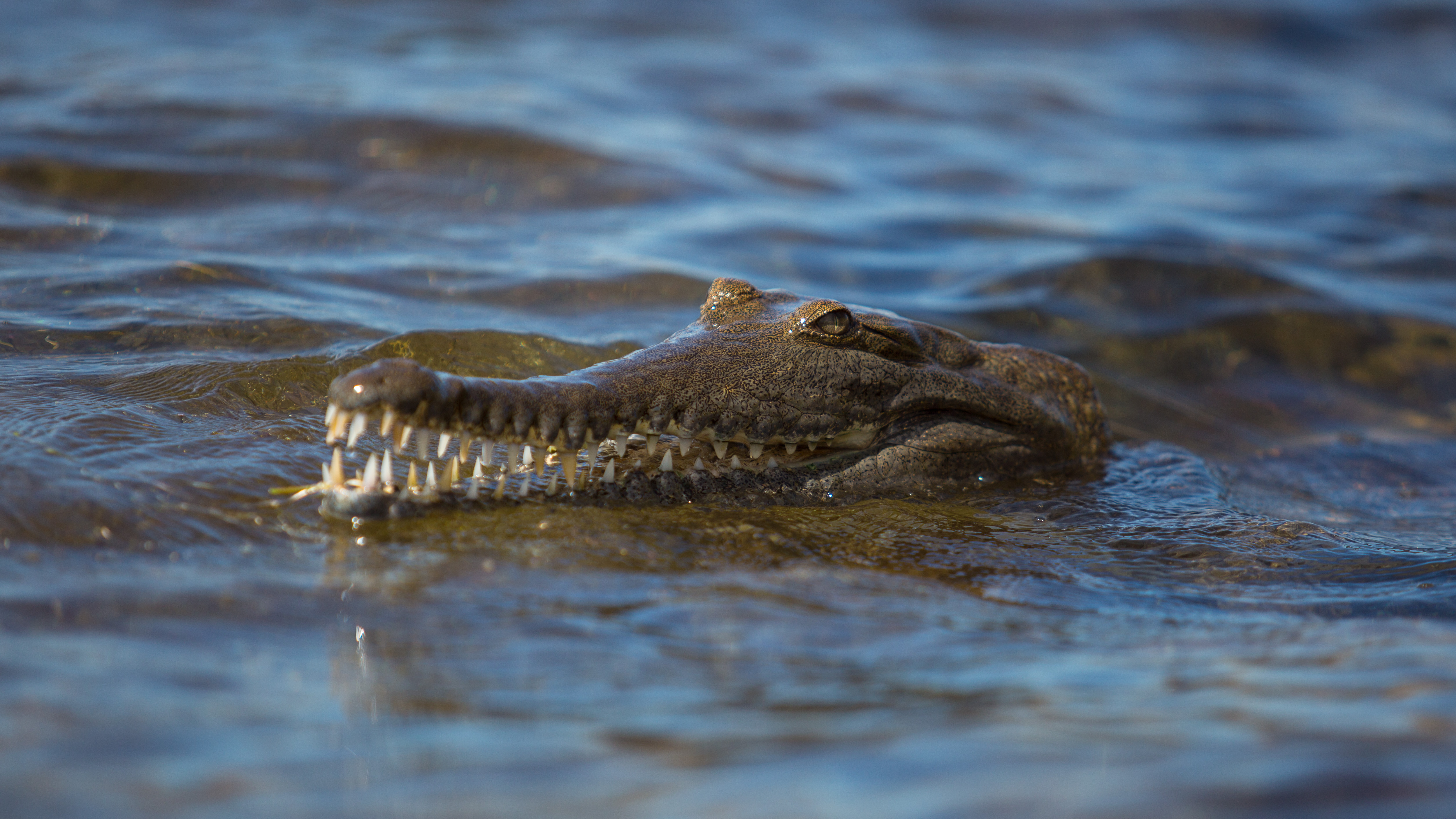 Taken from a kayak on Lake Arglye